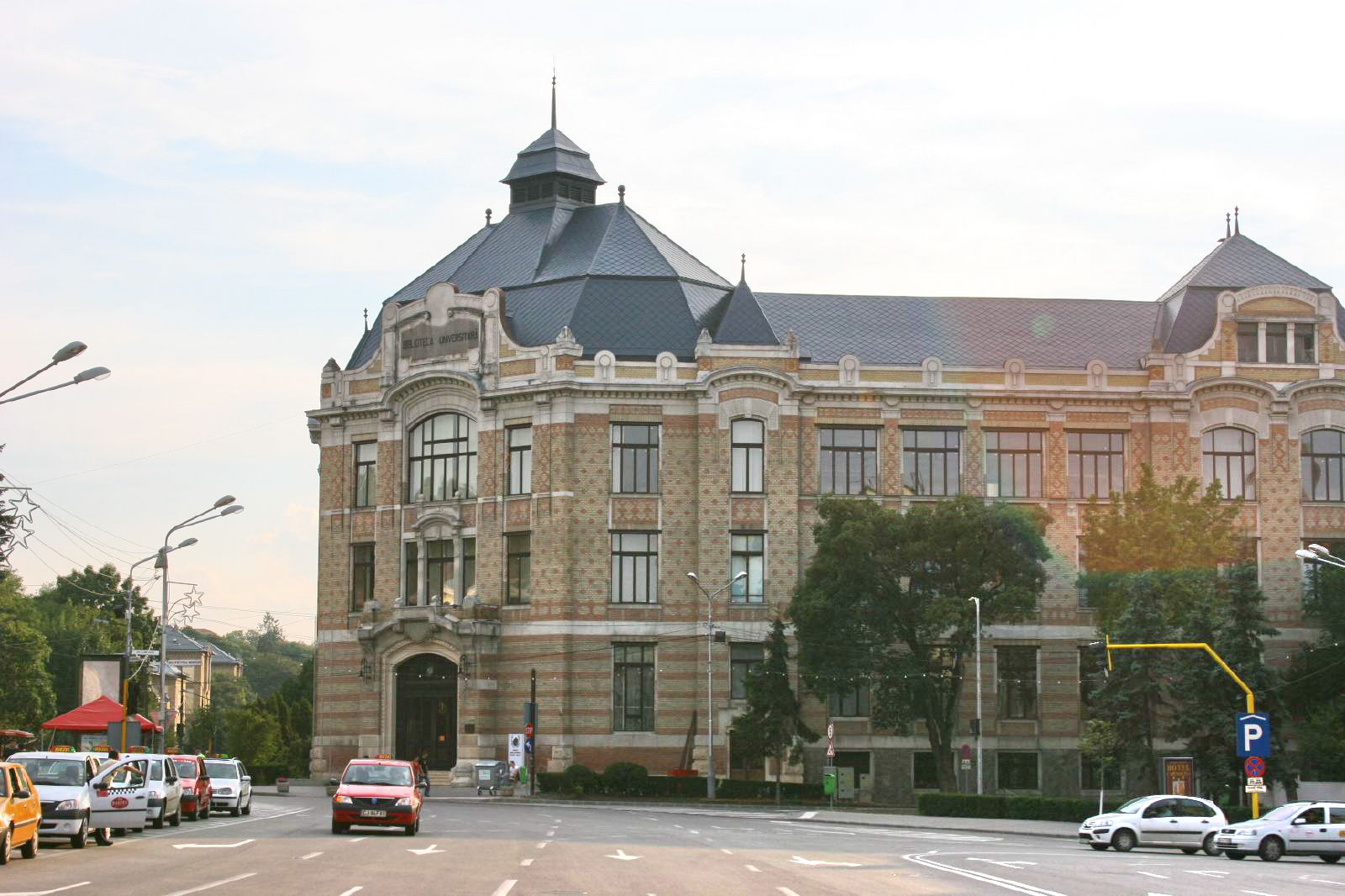 Babeş-Bolyai University library, Cluj-Napoca, Romania